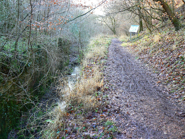 Siccaridge Wood Upper Lock (3), Thames and Severn canal, near Frampton Mansell This lock is one of six on the short stretch of canal between Daneway Bridge and Whitehall Bridge, a distance of about a kilometre. It must have taken an age to negotiate all six of them.